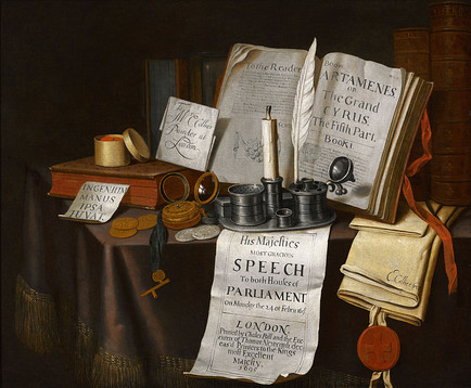 Parliament